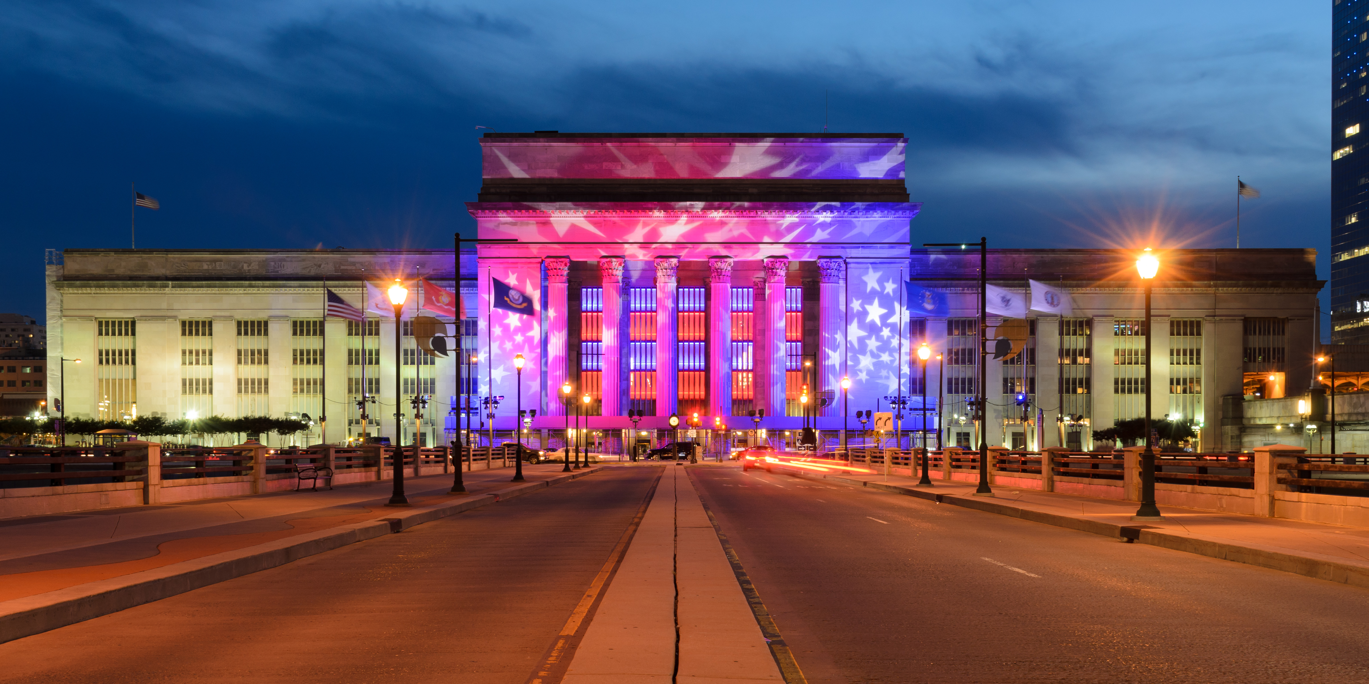 30th Street Station, Philadelphia, illuminated in honor of the 2016 Democratic National Convention.